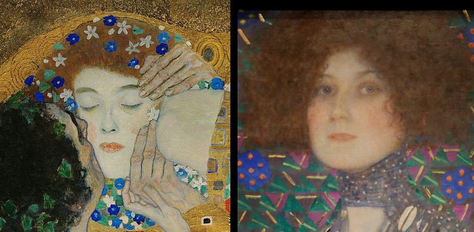 Details of The Kiss and Portrait ofEmilie Flöge